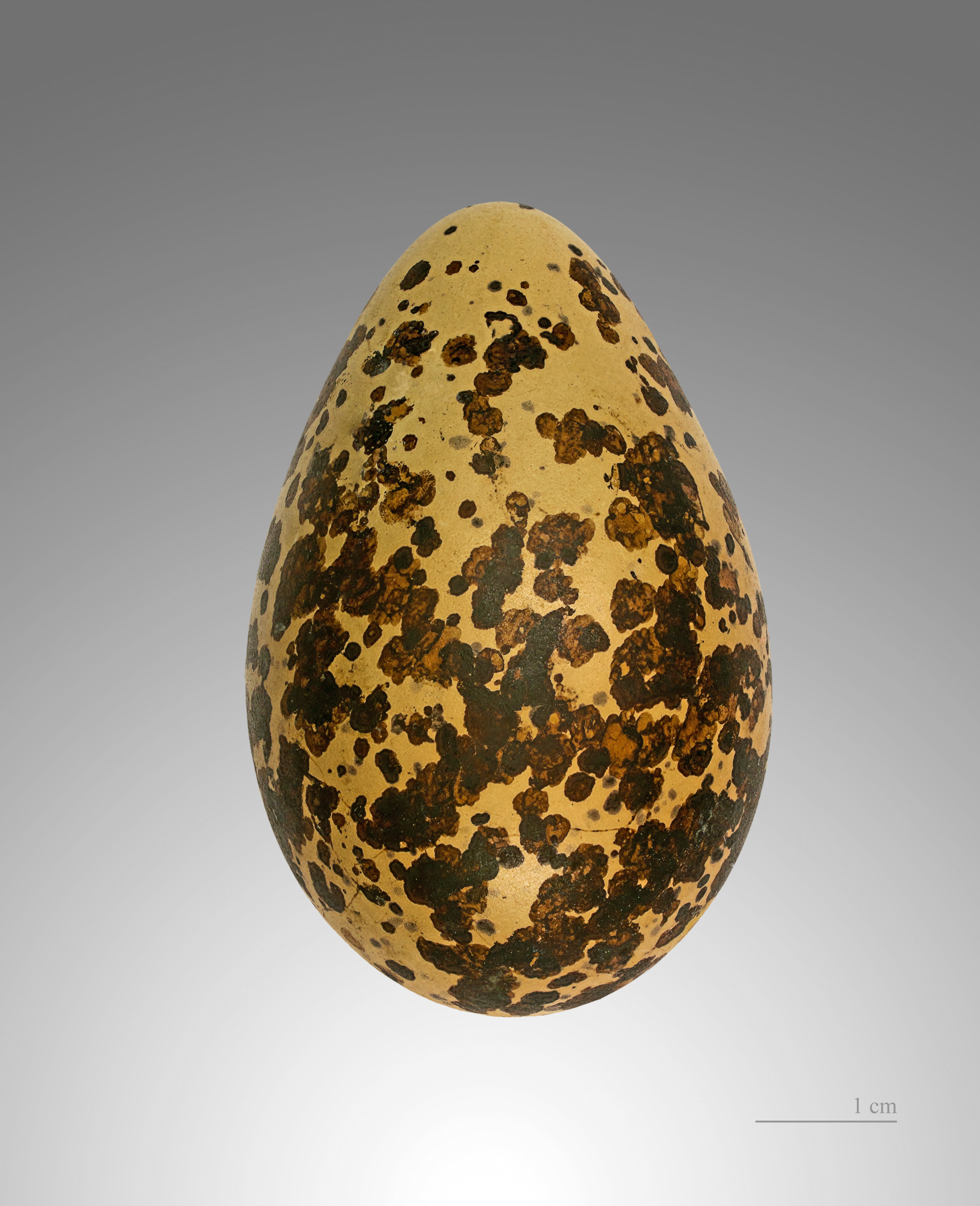 Egg of European Golden Plover. Collection of Jacques Perrin de Brichambaut.